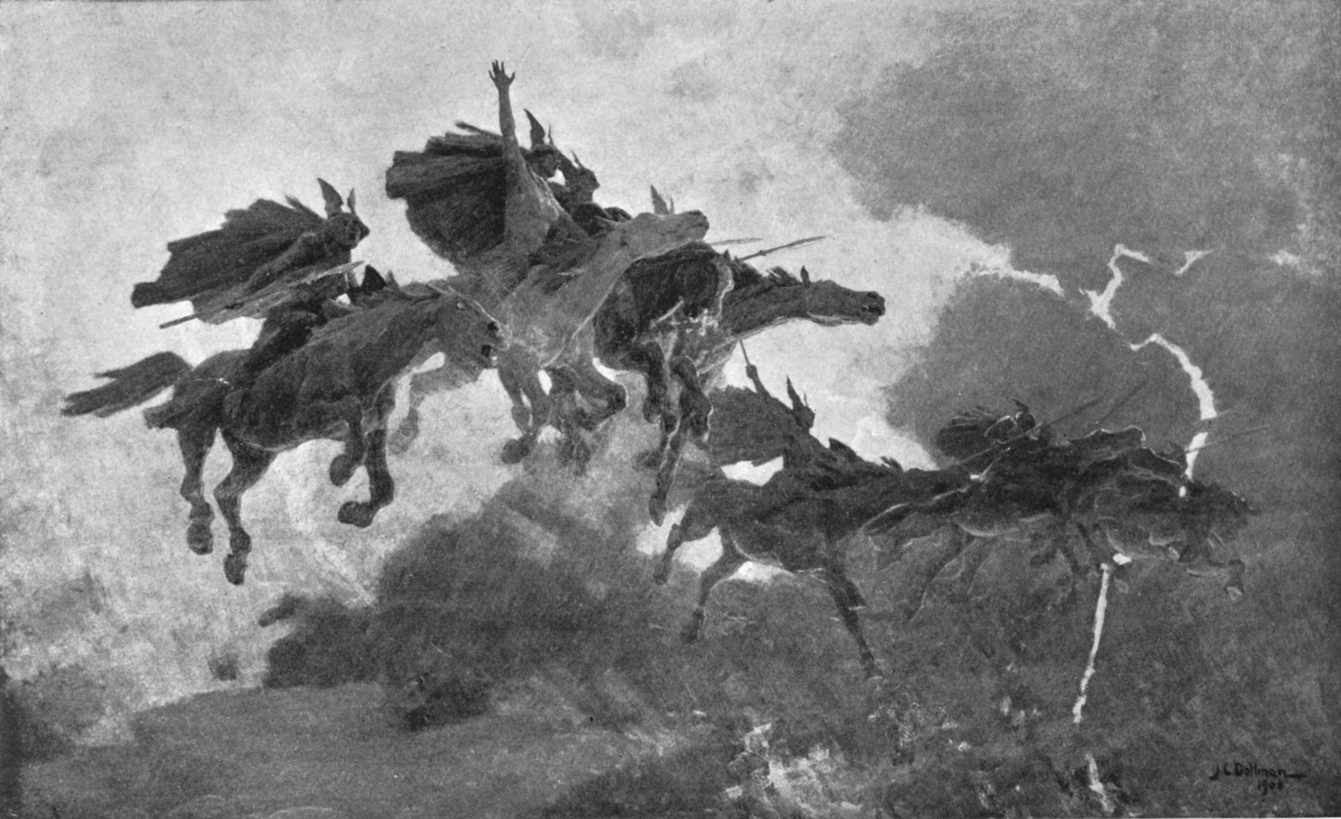 The Ride of the Valkyrs (the title given to the work in the list of illustrations on page vii).